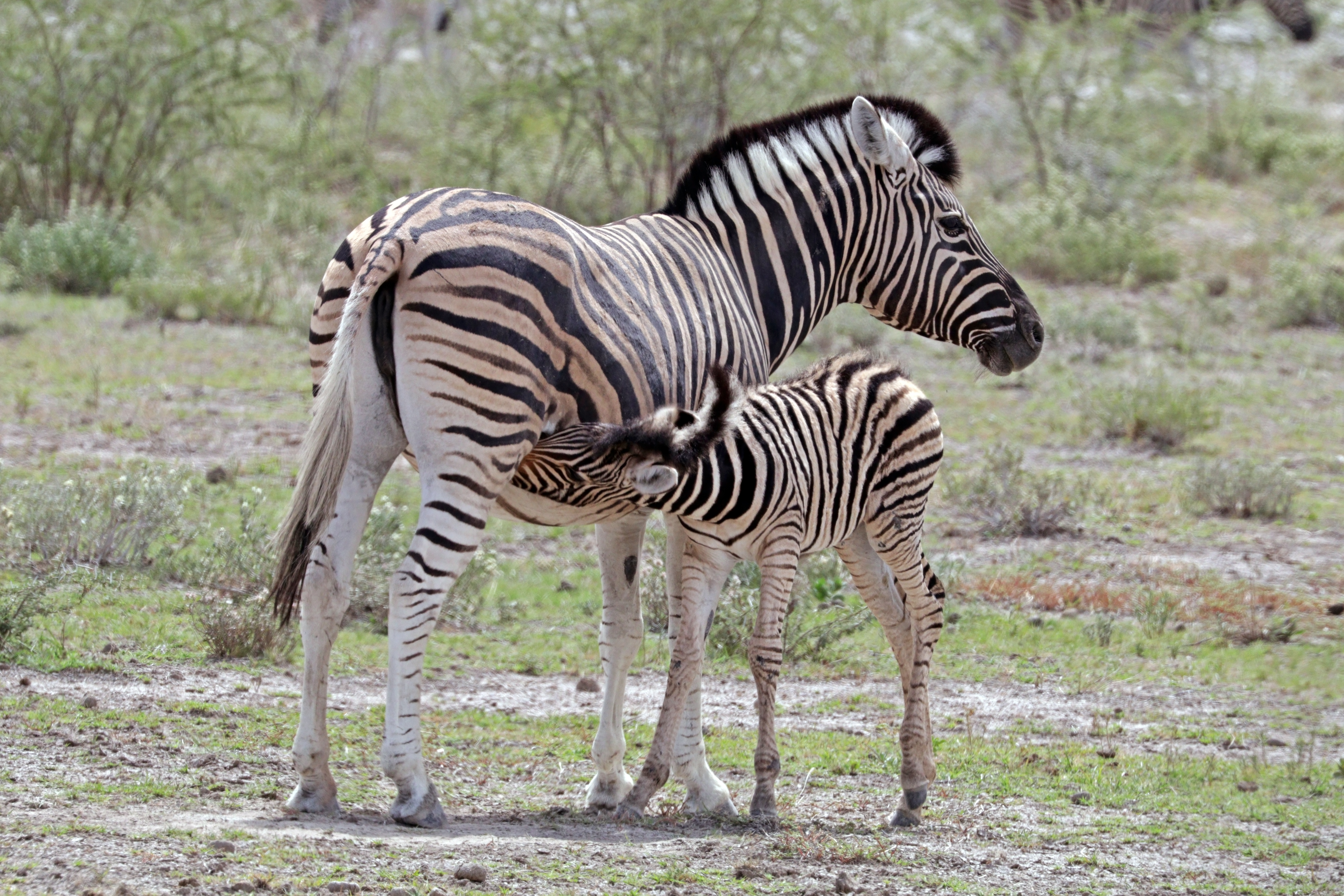 Burchell's zebra (Equus quagga burchellii) suckling, Etosha National Park, Namibia